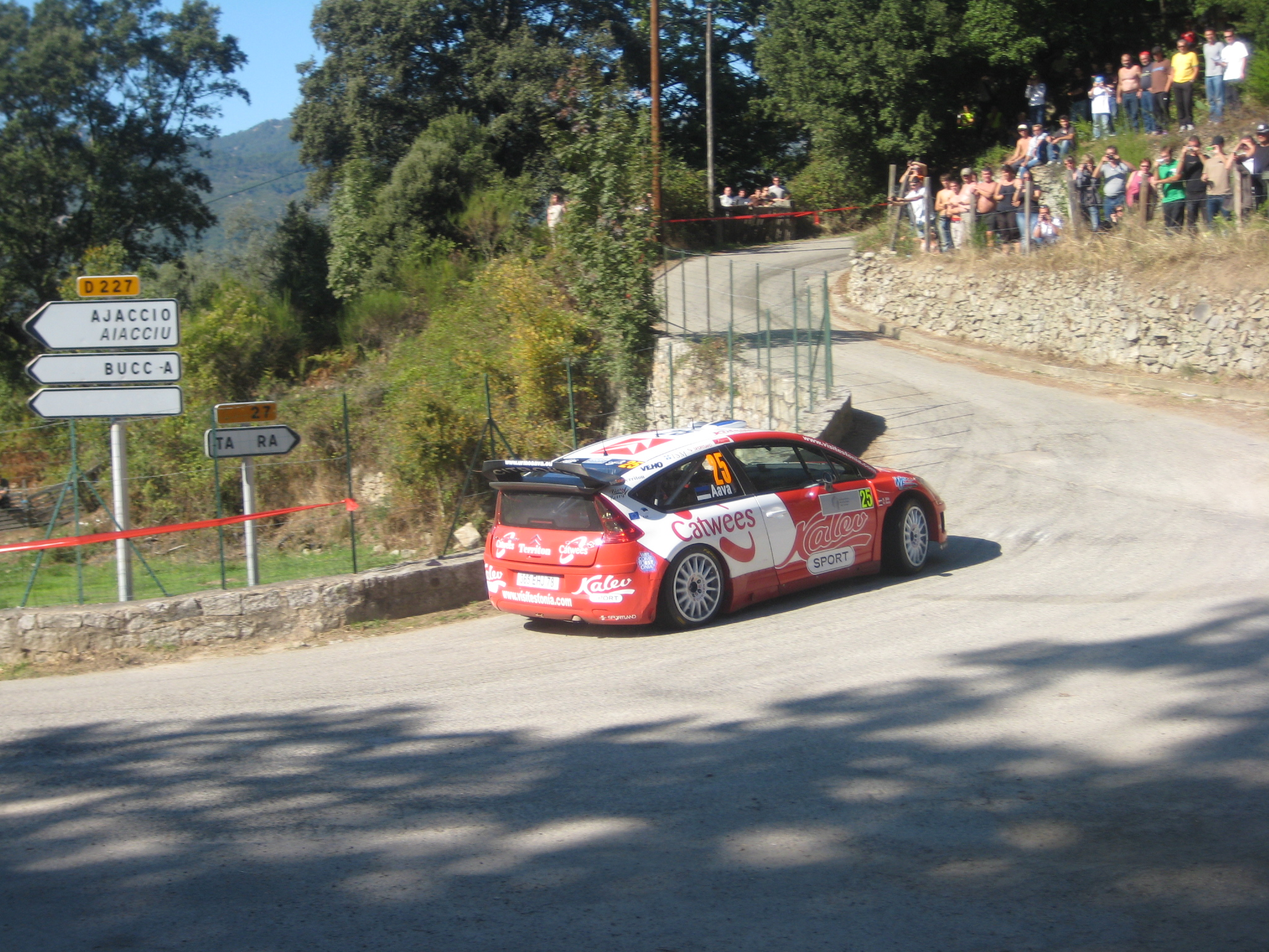 2008 Rallye de France, Day 2-SS10, Urmo Aava - Citroen C4 WRC